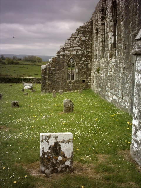 Burriscarra Friary